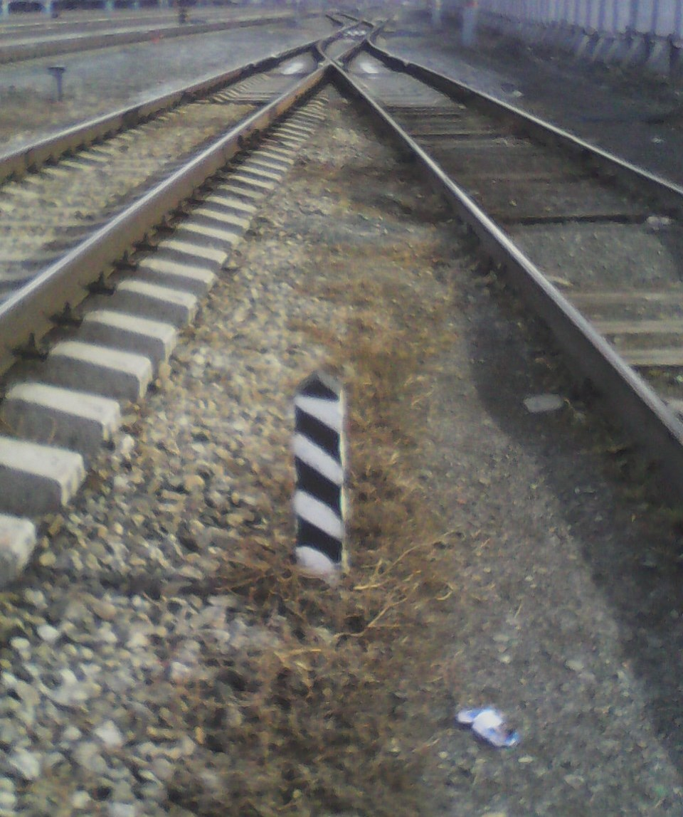 Railway border markers of Russia